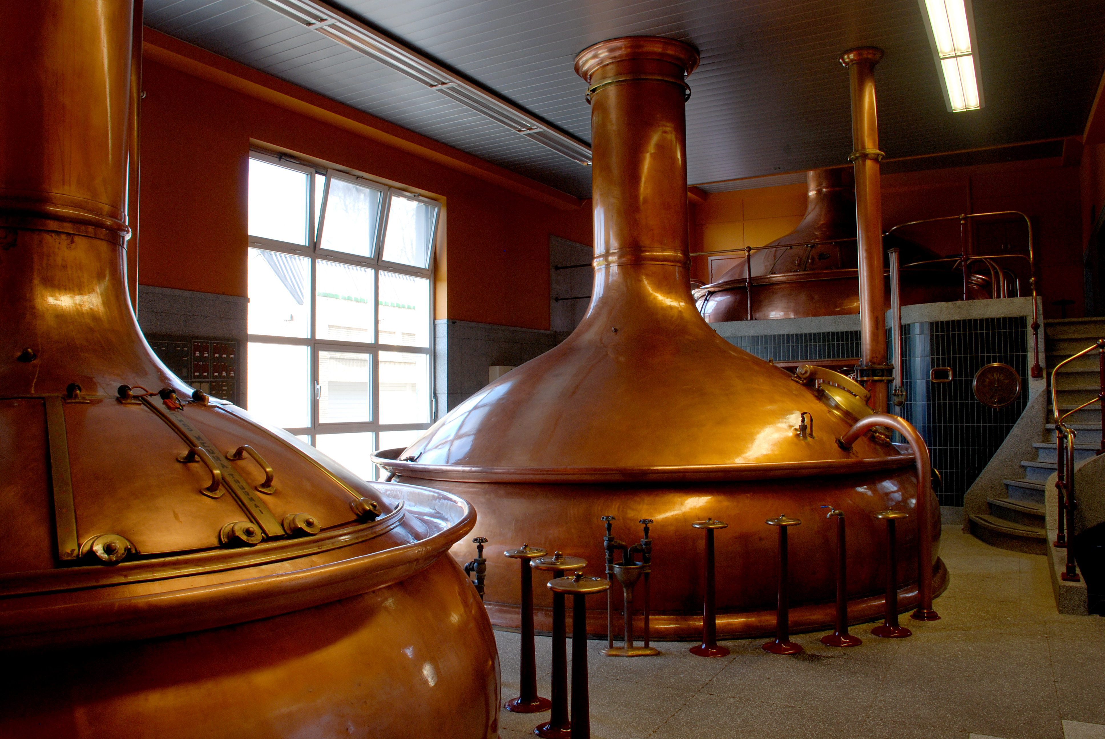 Brewery Bockor